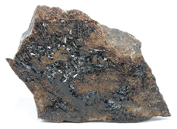 Hisingerite Locality: Långban, Filipstad, Värmland, Sweden (Locality at ) Size: 7.3 x 5.2 x 2.4 cm. Hisingerite is an uncommon secondary, hydrated, iron silicate. Very rare, crystallized plates of reddish-brown, silver metallic-lustre hisingerite crystals are festooned on the sculptural matrix of this very rich specimen from the famous Langban deposit of Sweden. Hisingerite specimens are very rare from Langban and this choice piece is from the collection of Dr. Mark Feinglos, a noted rarities collector.